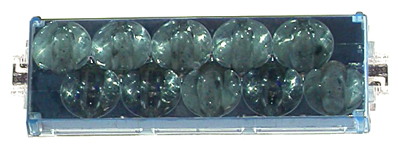 "Flip Flash" (flipflash) or similar-type 10-bulb photographic flash cartridge.